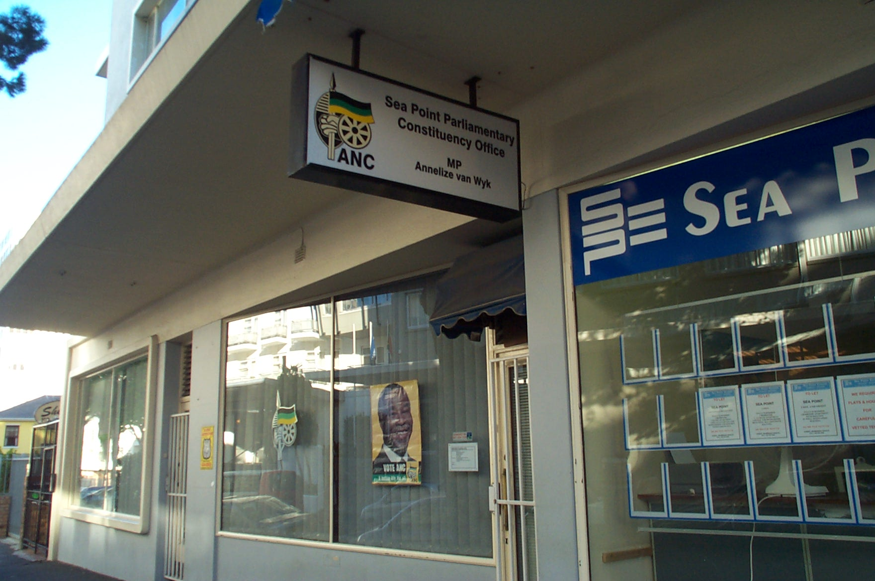 Sea Point African National Congress constituency office for Annelize van Wyk MP.